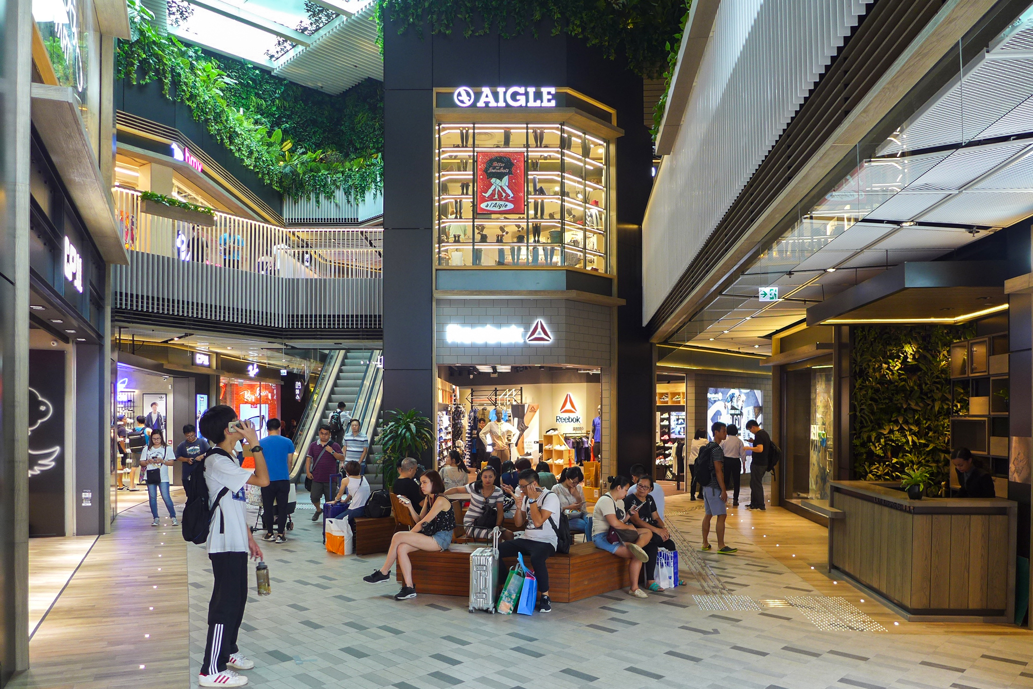 The FOREST Atrium